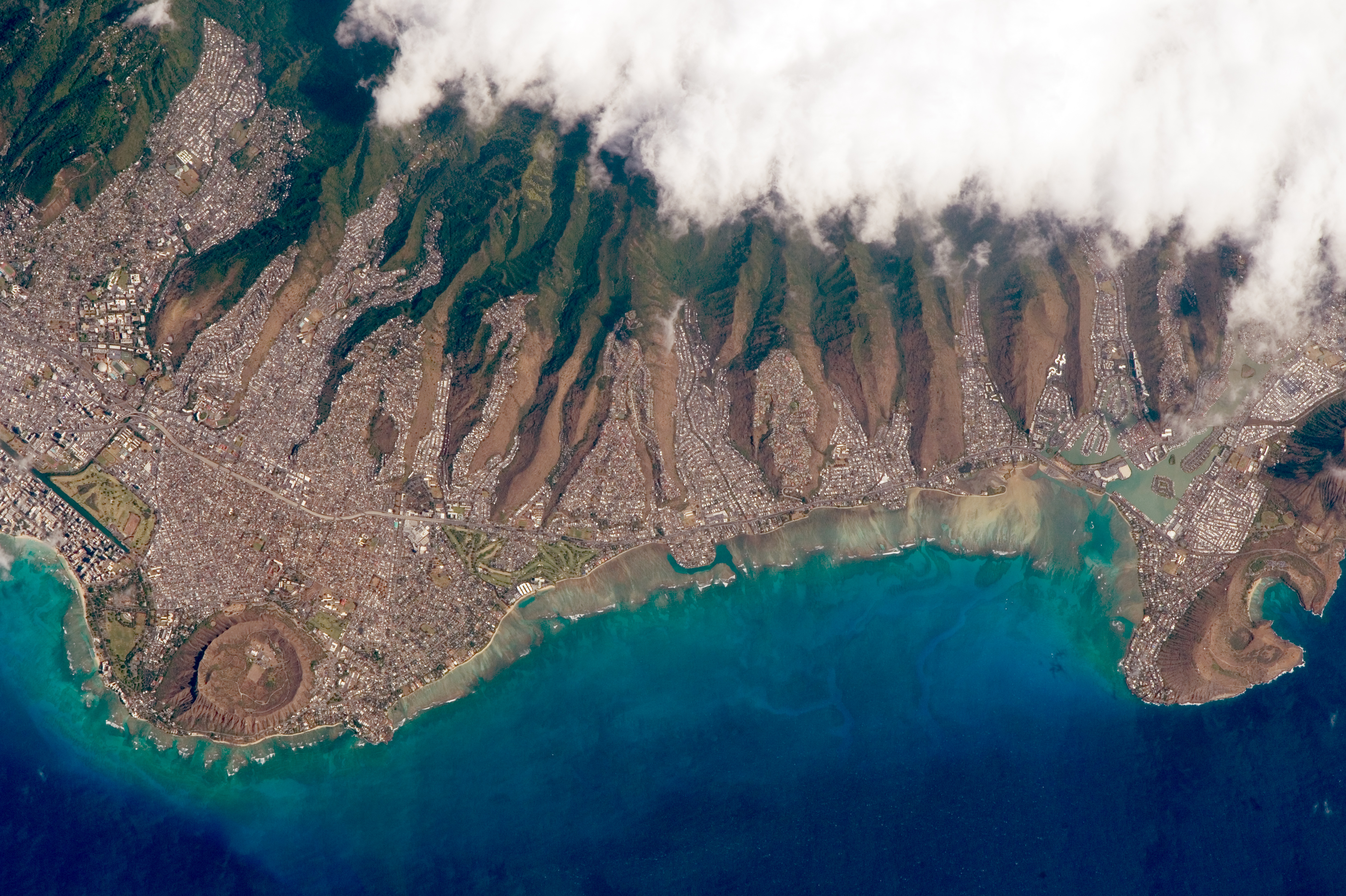 NASA astronaut Tim Kopra tweeted this Earth observation image out with the comment: "#Honolulu #Hawaii -- beautiful and historic city. @Space_Station #CitiesfromSpace".